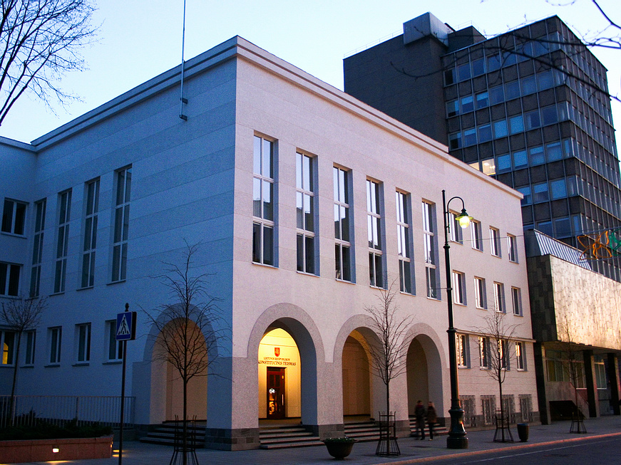 Lithuanian Constitutional Court, Vilnius, Lithuania